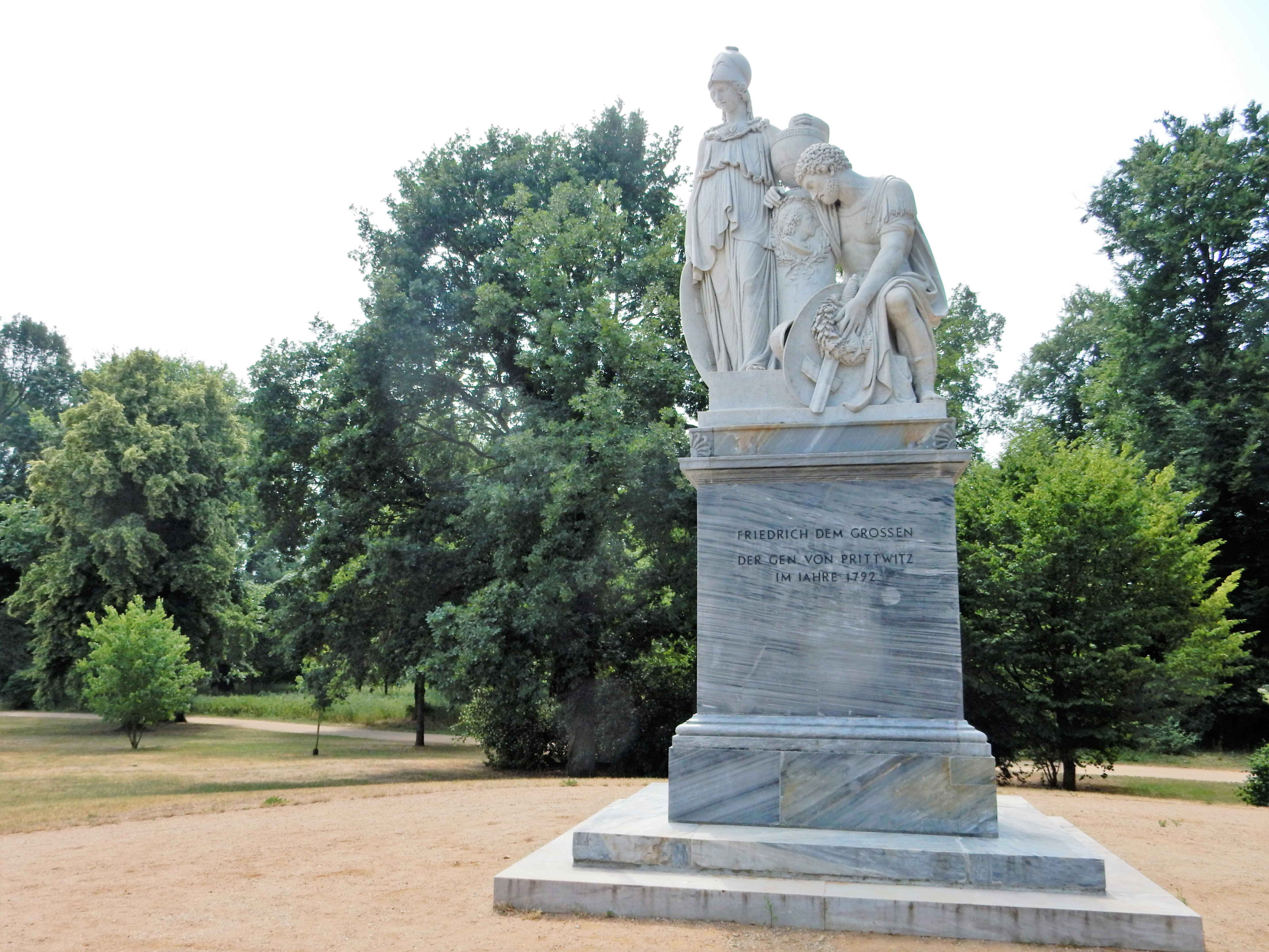 Memorial to Fredrick II. of Prussia at Neuhardenberg, errected by general von Prittwitz